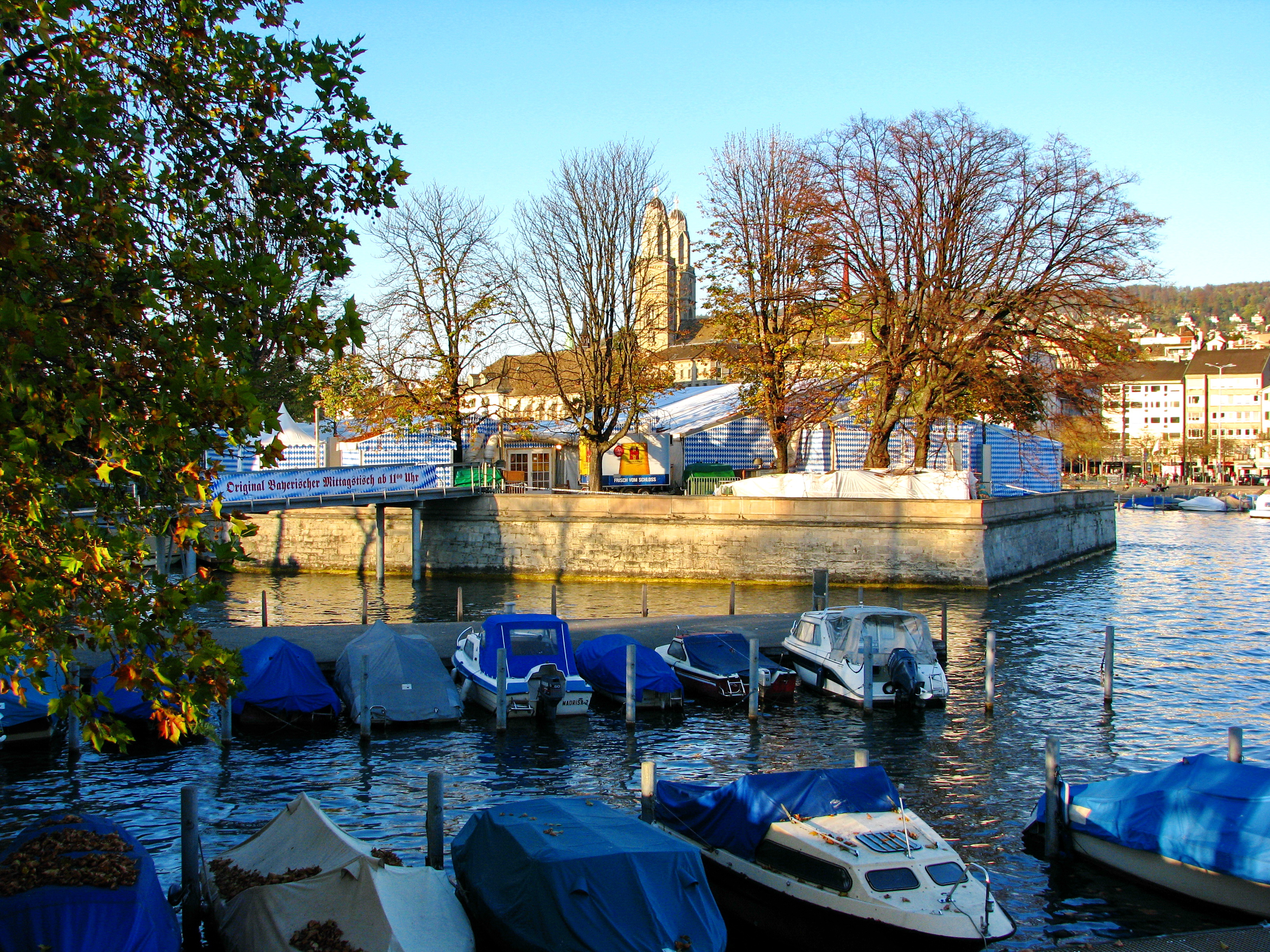 Zürich : Bauschänzli in the Limmat river near Bürkliplatz, seen from Stadthausquai (City hall), Grossmünster and Limmatquai in the background.